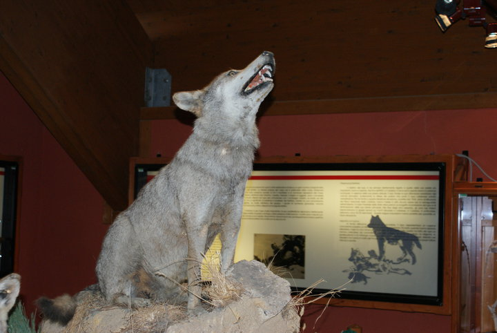 Museum of Cupone - Sila National Park - Canis Lupis Italicus